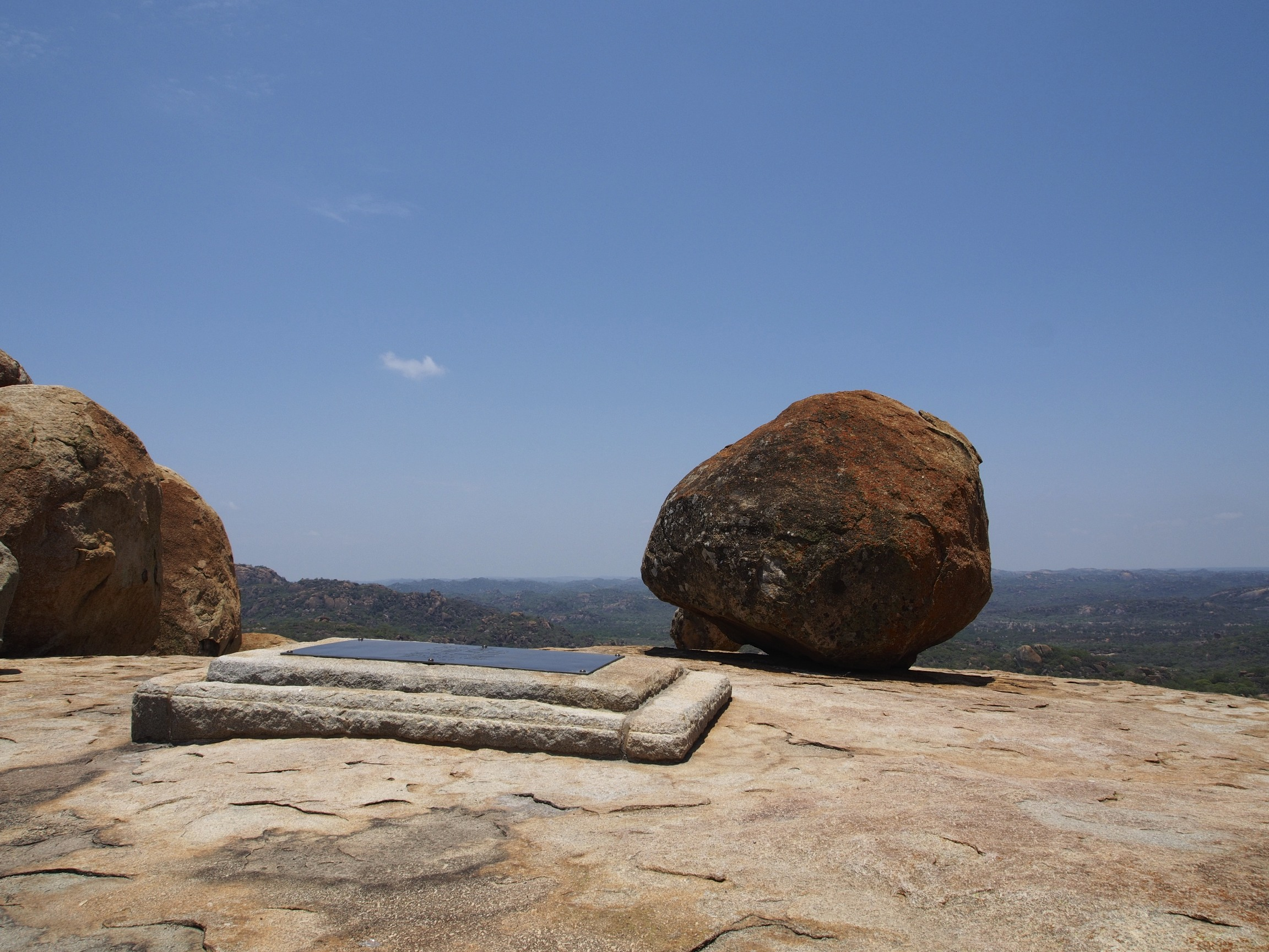 Tomb of Cecil Rhodes, Matopos Hills, Zimbabwe.